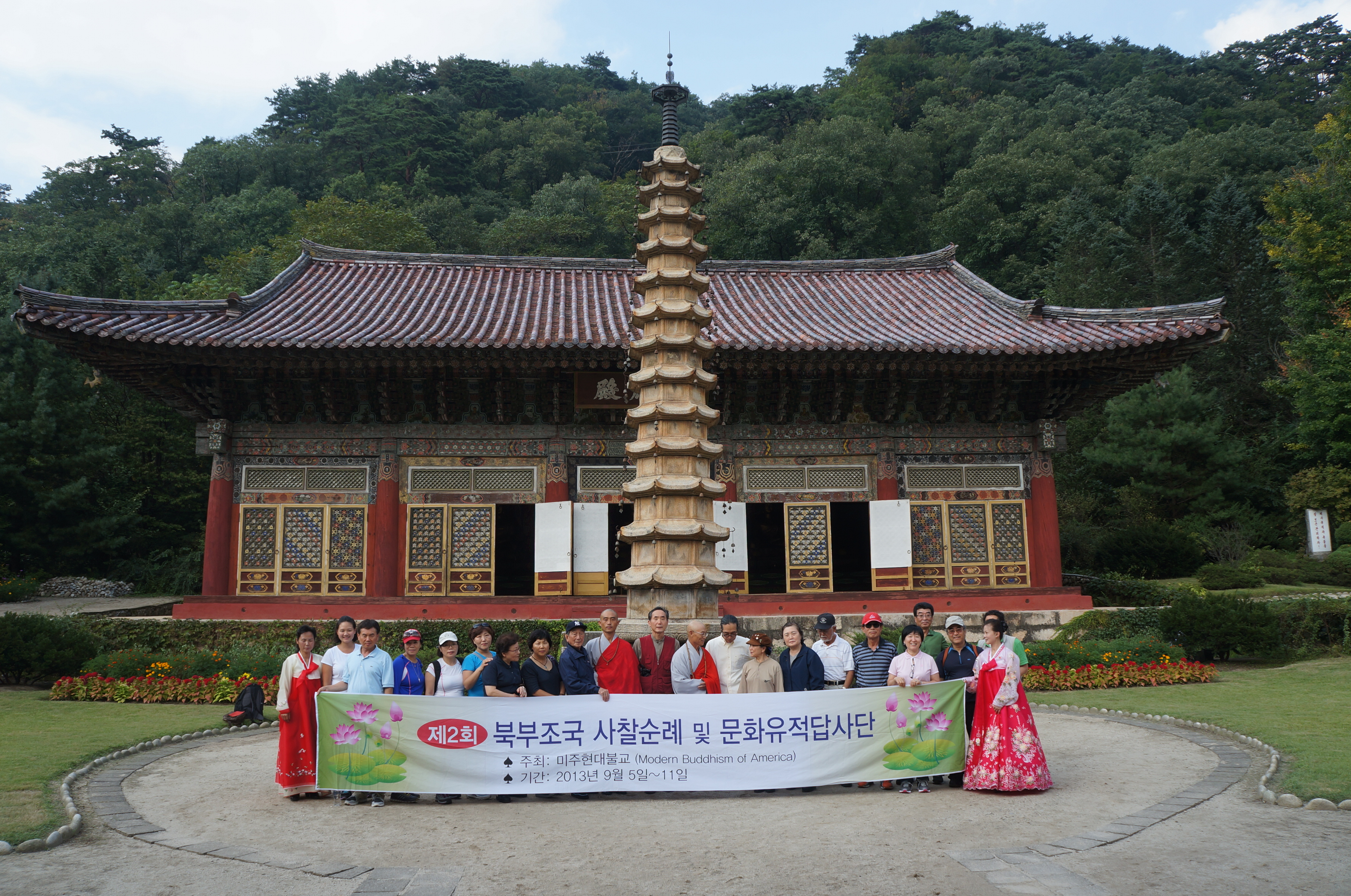 Bohyeon temple in Myohyang Mountain, DPRK